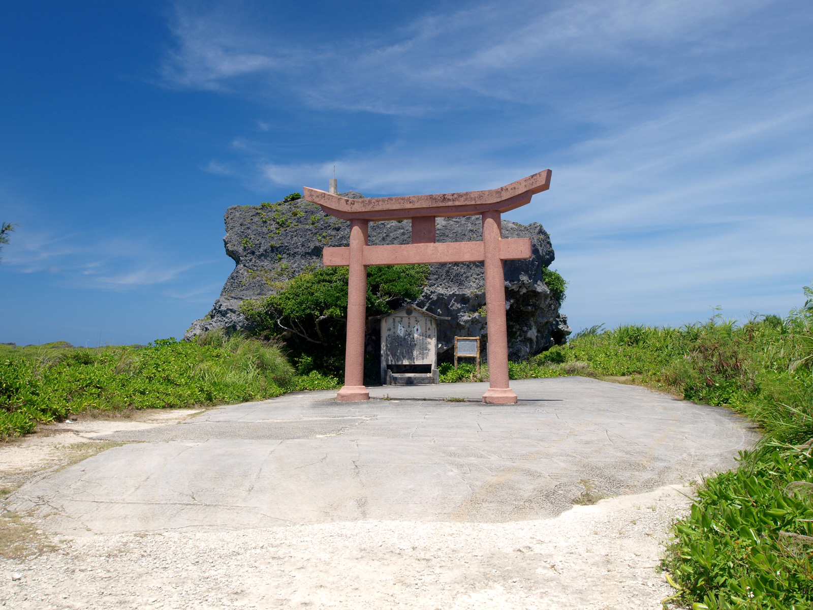 Obi-iwa, Shimoji Island, Miyakojima, Okinawa, Japan